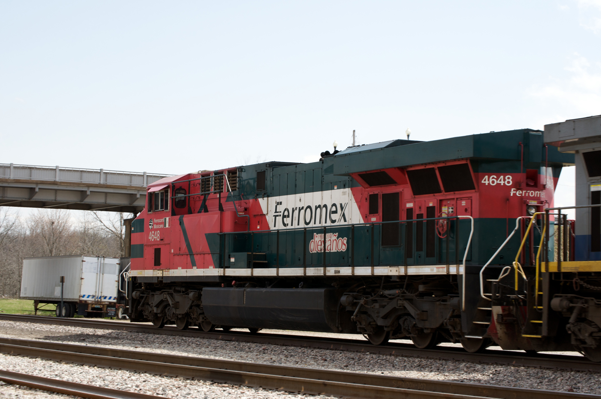 Ferromex GE ES44AC #4648 leads an eastbound manifest through Willow Springs, MO.